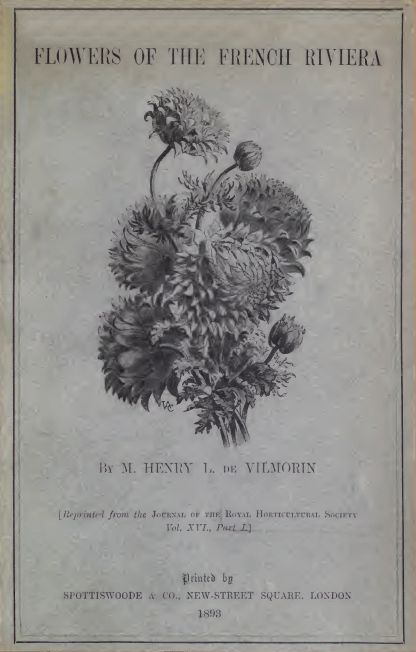 Cover of 'Flowers of the French Riviera'